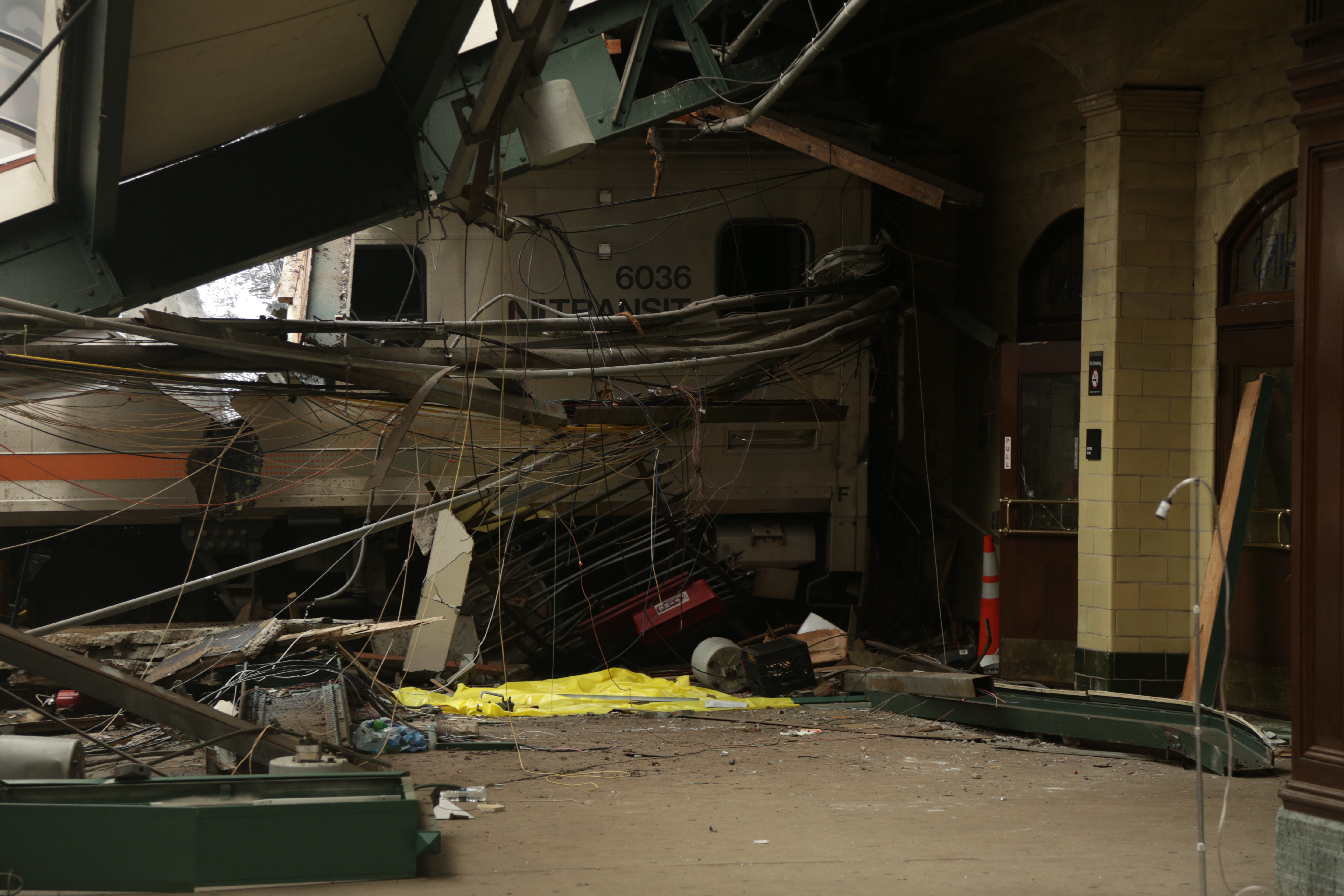 Cab car #6036 in the aftermath of the 2016 Hoboken crash